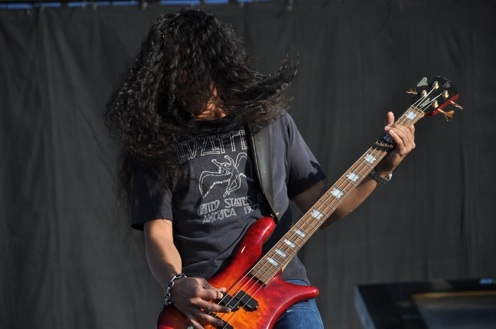 Mike Inez Live in Concert in 2008